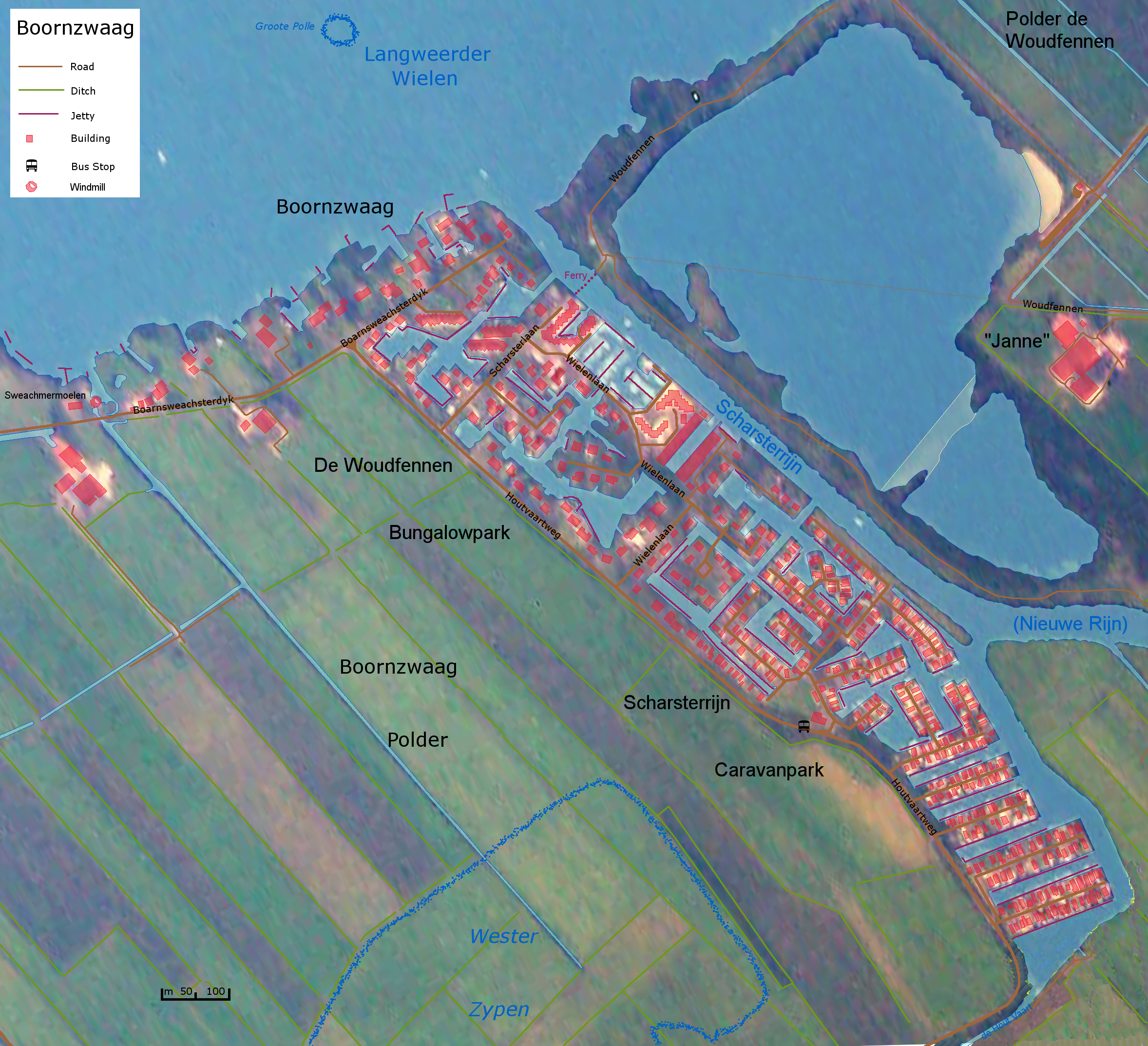 Map of Boornzwaag Friesland